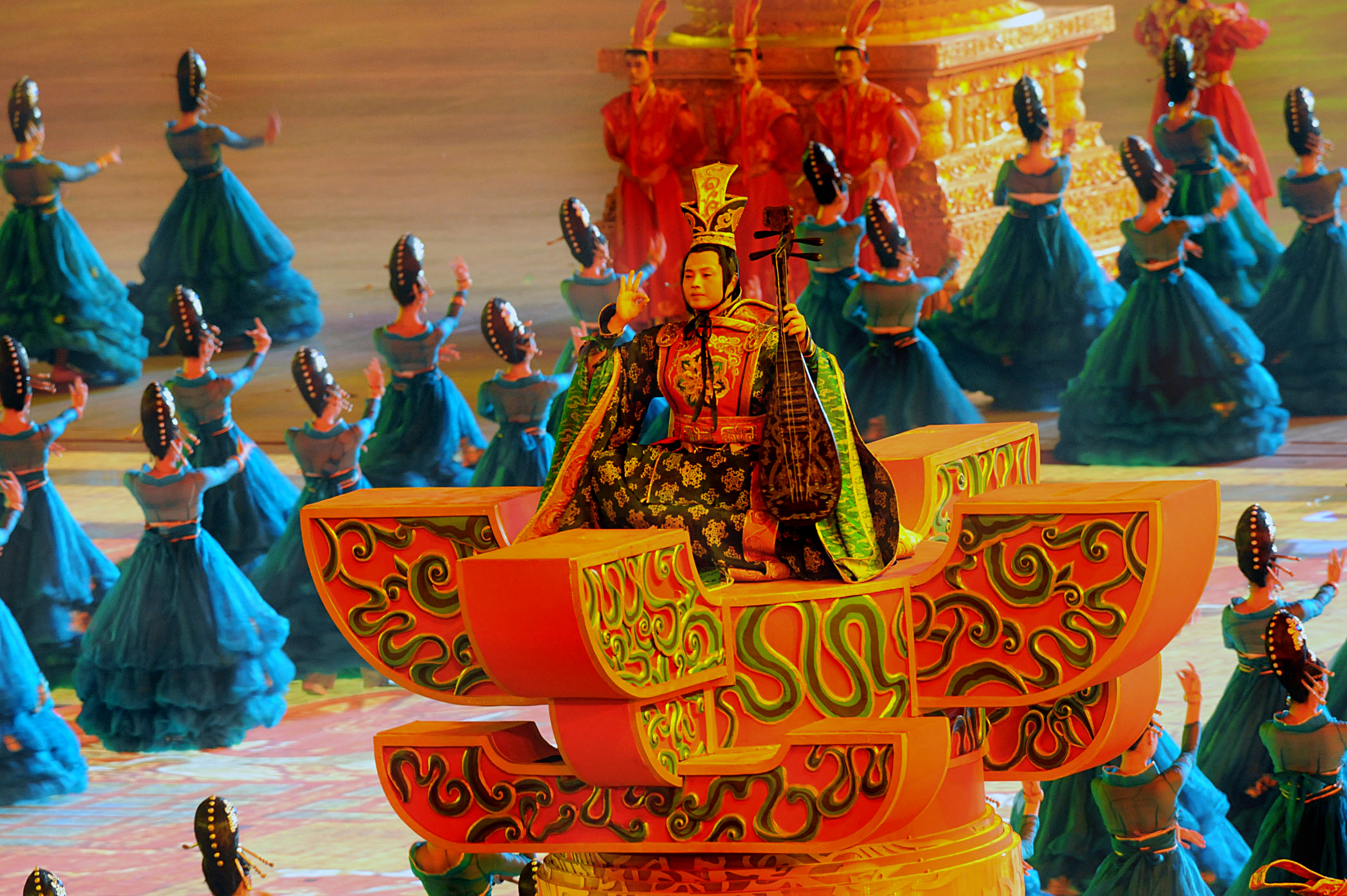 A Guqin player represents the "sounds of utmost antiquity" mainly used for the cultural life of intellectuals in ancient China during the Opening Ceremony of the Games of the XXIX Olympiad at the Bird's Nest National Stadium August 8th, 2008, in Beijing.